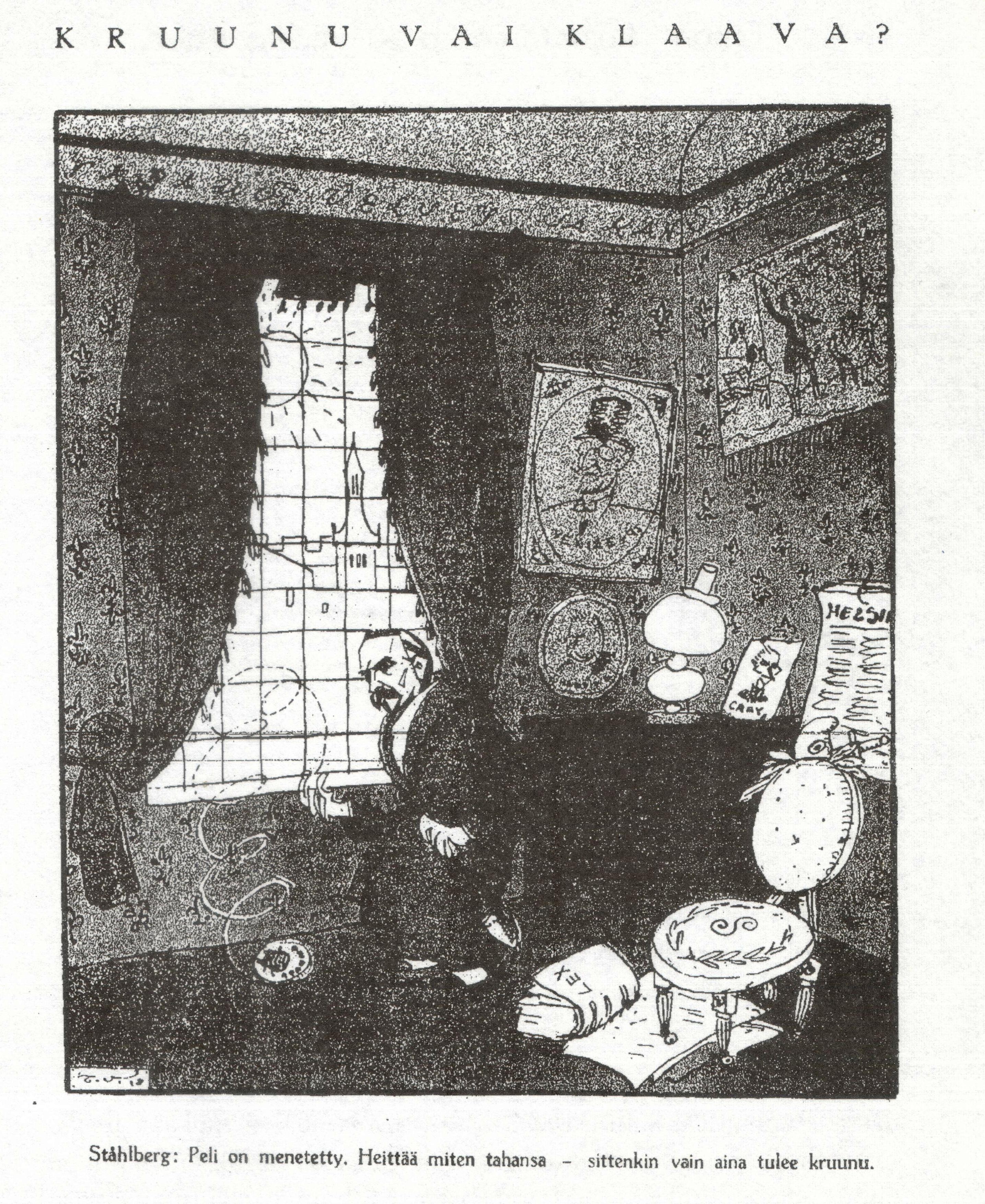 "Heads or tails?": Finland is becoming a monarchy. K. J. Ståhlberg, leader of the republicans, says "The game is lost. No matter how I flip the coin, every time I get "the crown" [heads]". Published in the "King edition" of Finnish humour magazine Kerberos.